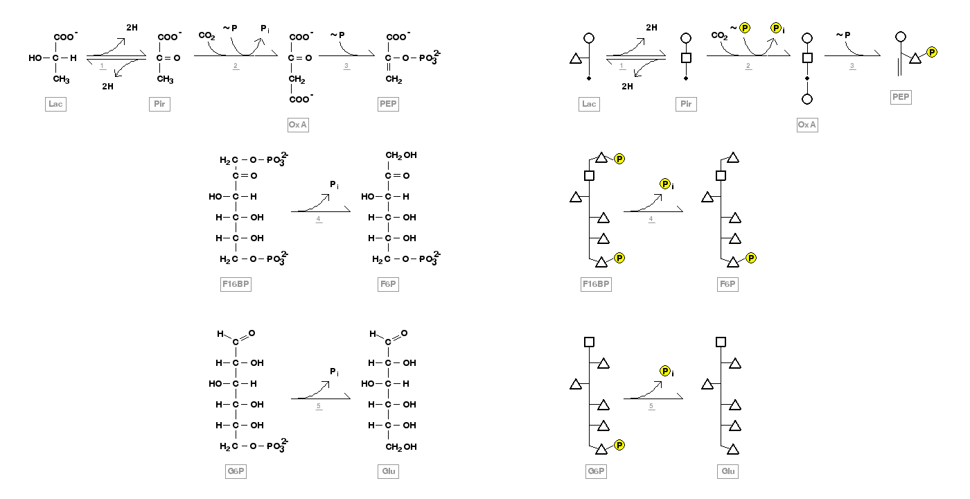 Comparison between gluconeogenesis reactions from lactate